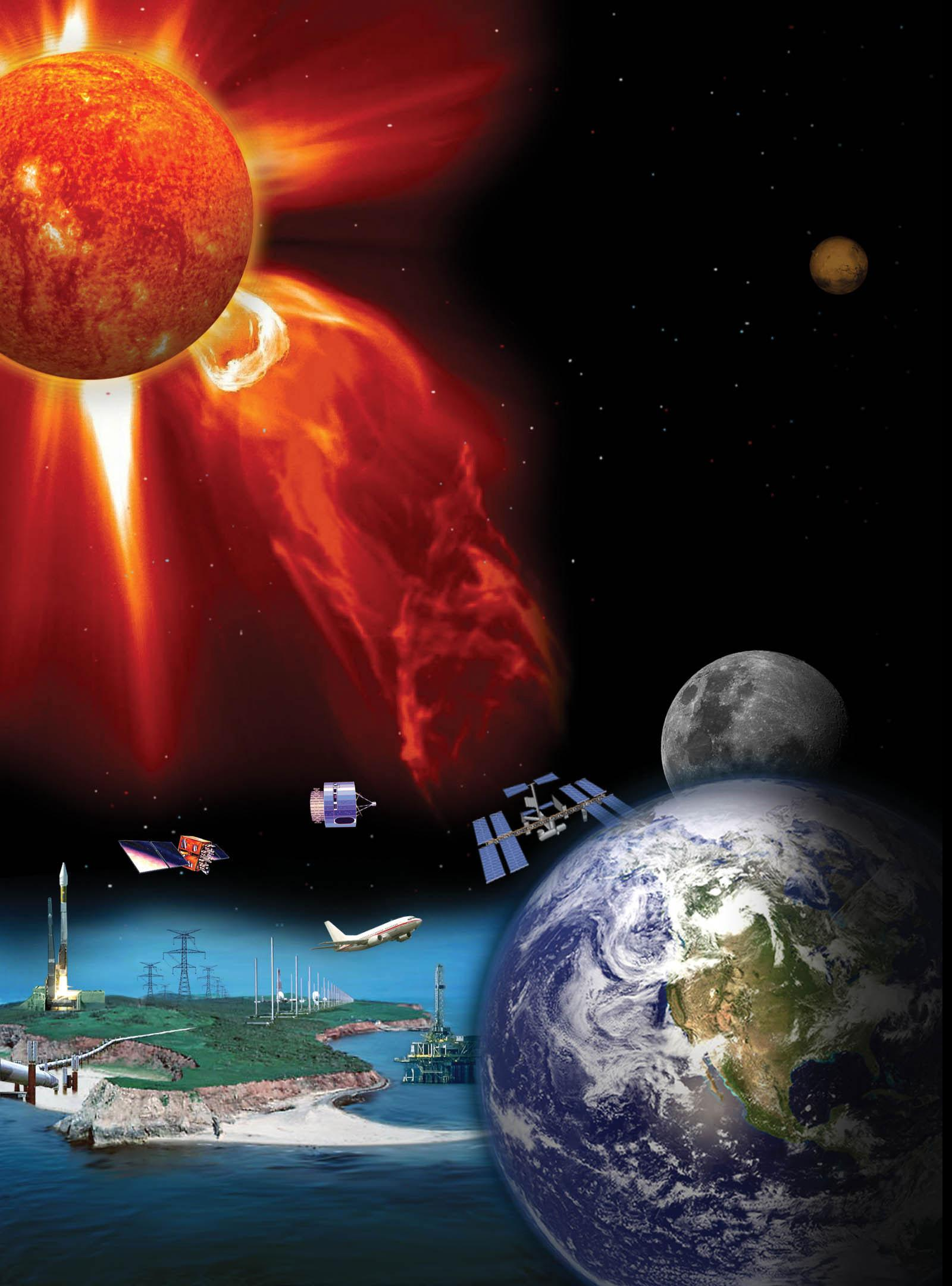 Sun Earth Space weather art